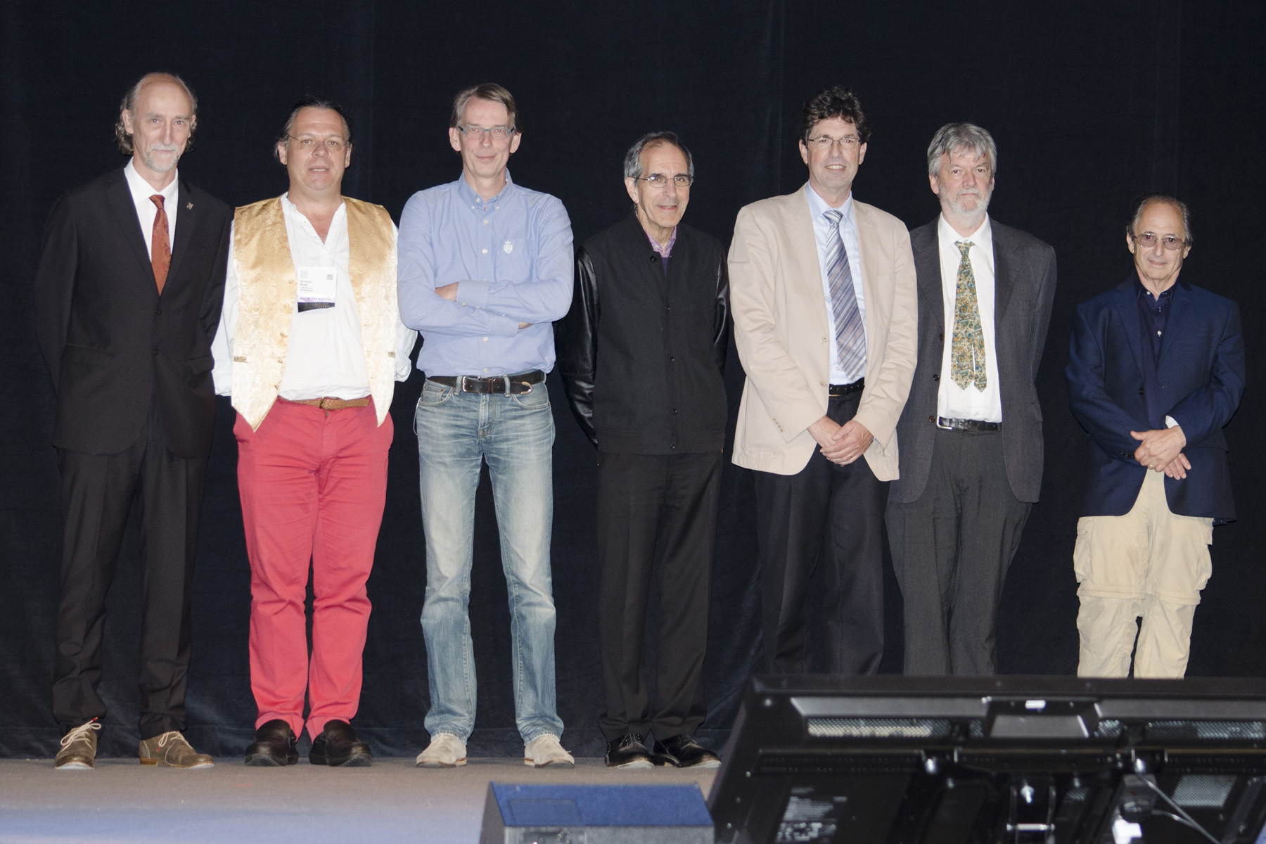 Left to right: Alfonso Valencia (ISCB President) and ISMB 2015 Fellows: Burkhard Rost, Rolf Apweiler, Cyrus Chothia, Thomas Lengauer, Des Higgins, Michael Levitt